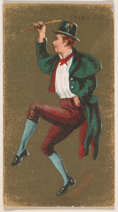 Print; Prints